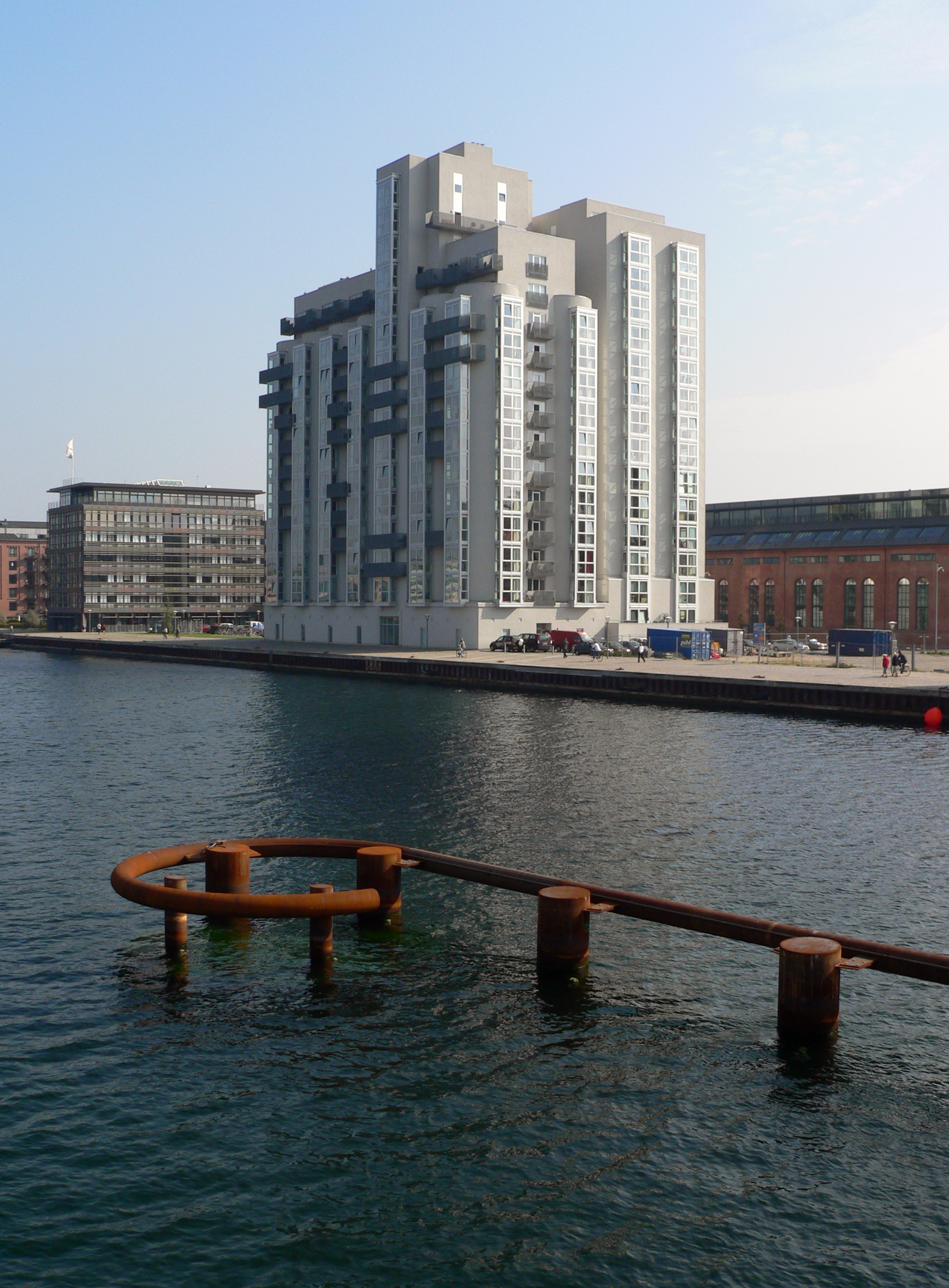 The Wennberg Silo on Islands Brygge (converted industrial silo) Architect: Tage Lyneborg Tegnestue